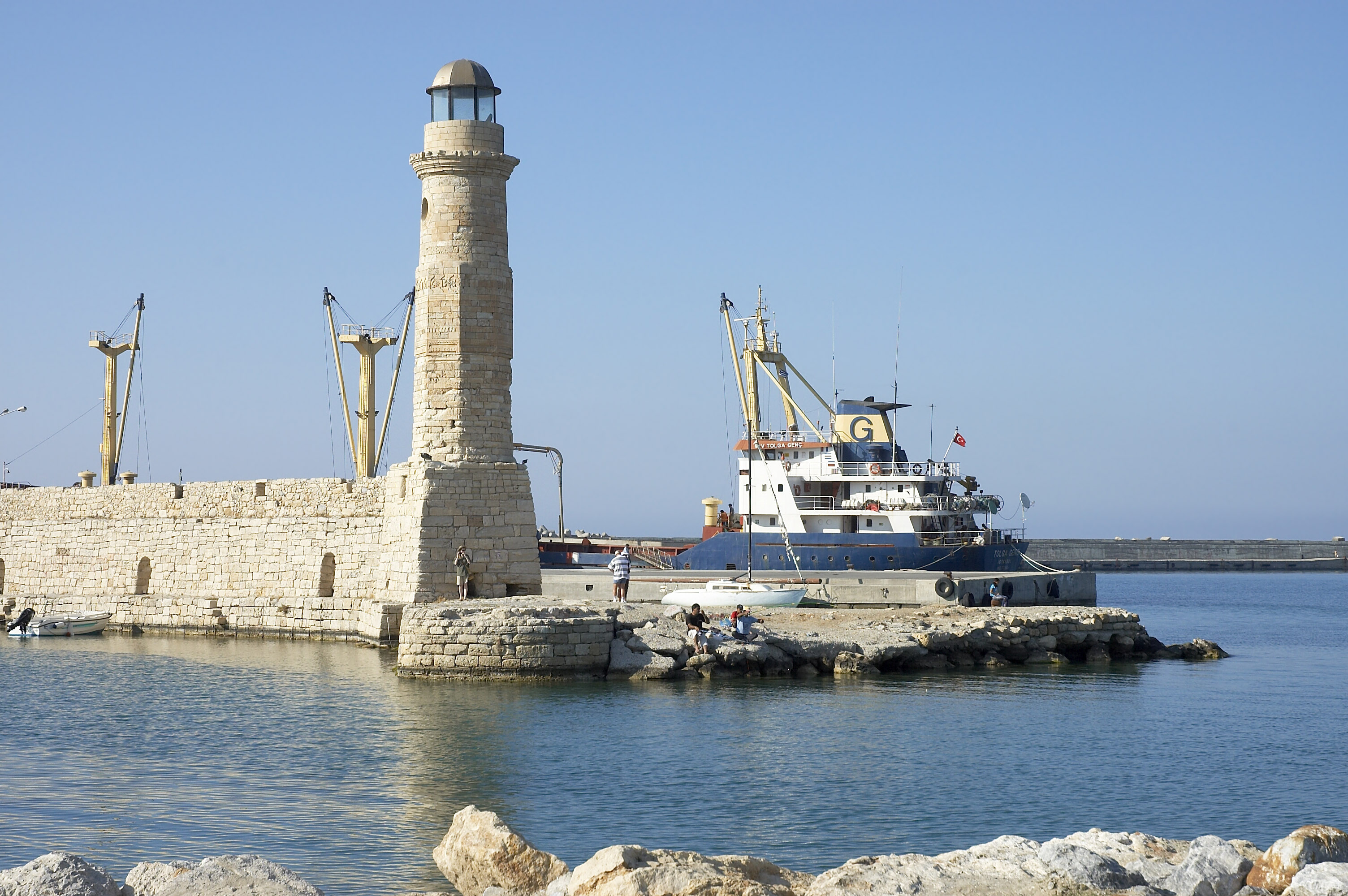 Lighthouse in Rethymno with the MV Tolga Genc IMO Number: 7721885 MMSI Number: 271000082 Callsign: TCEG Length: 90 m Beam: 13 m